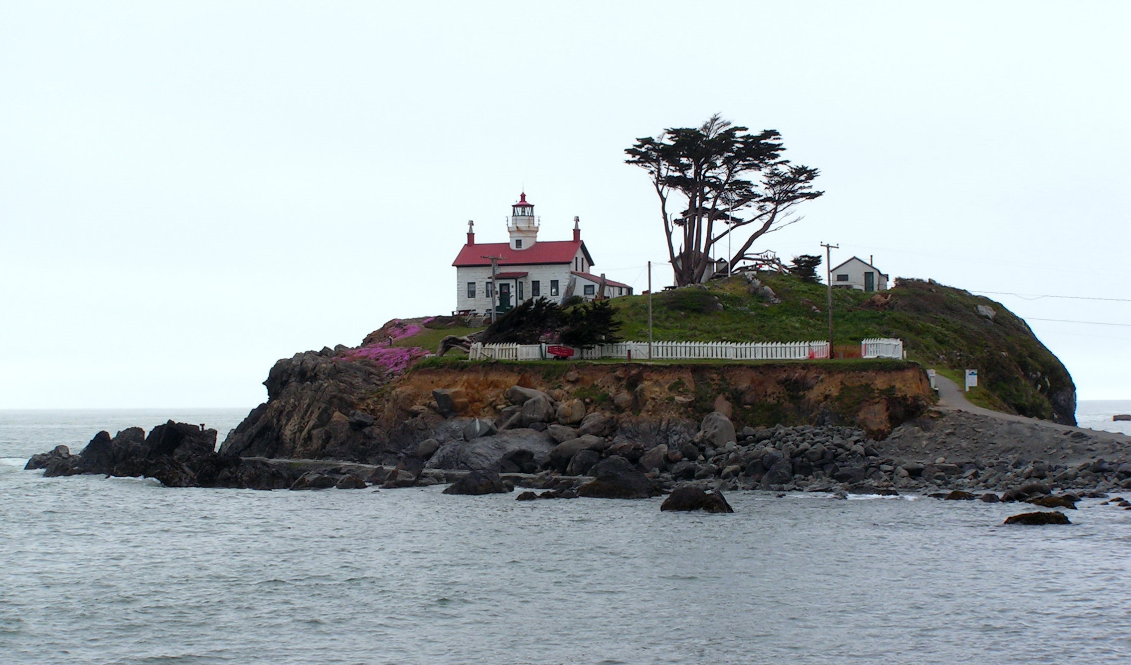 photograph of Battery Point Lighthouse, Crescent City, CA